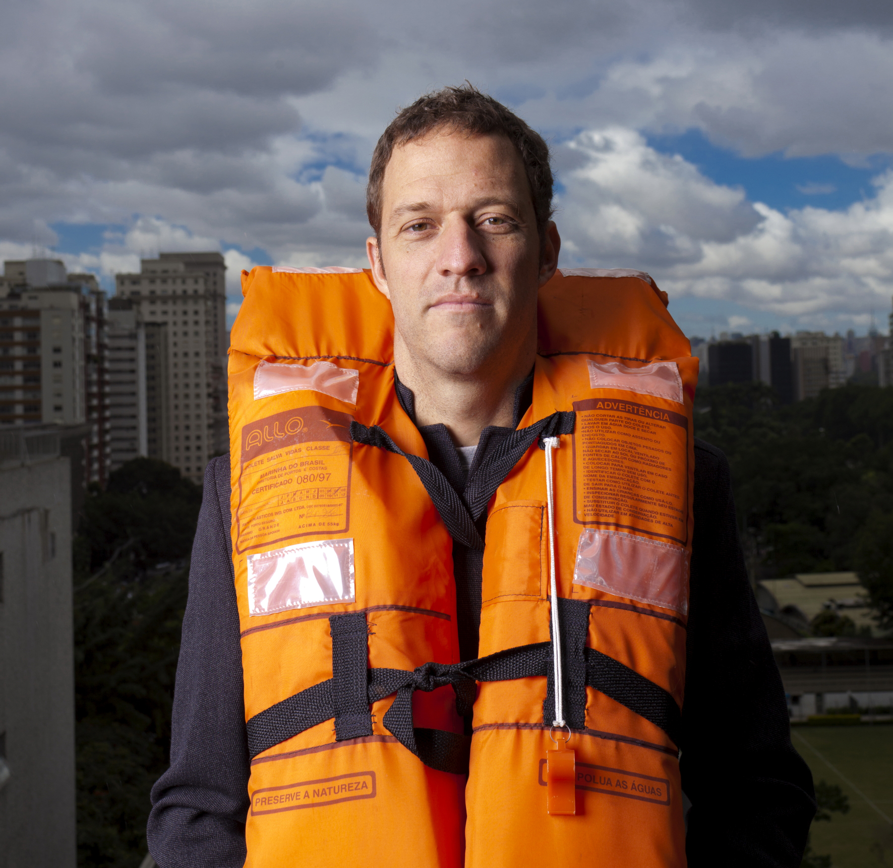 Eduardo Srur